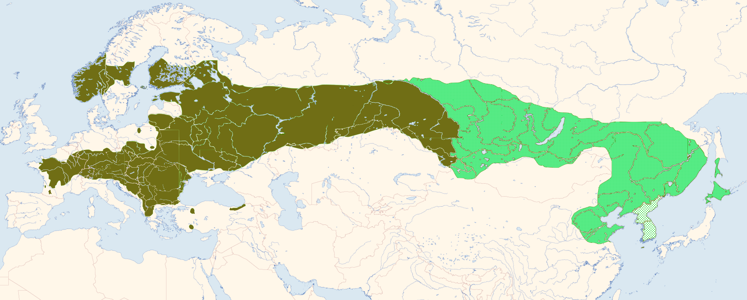 Distribution of Picus canus olive green: Picus canus canus light green: Picus canus jessoensis white with little green dots: Picus canus griseoviridis